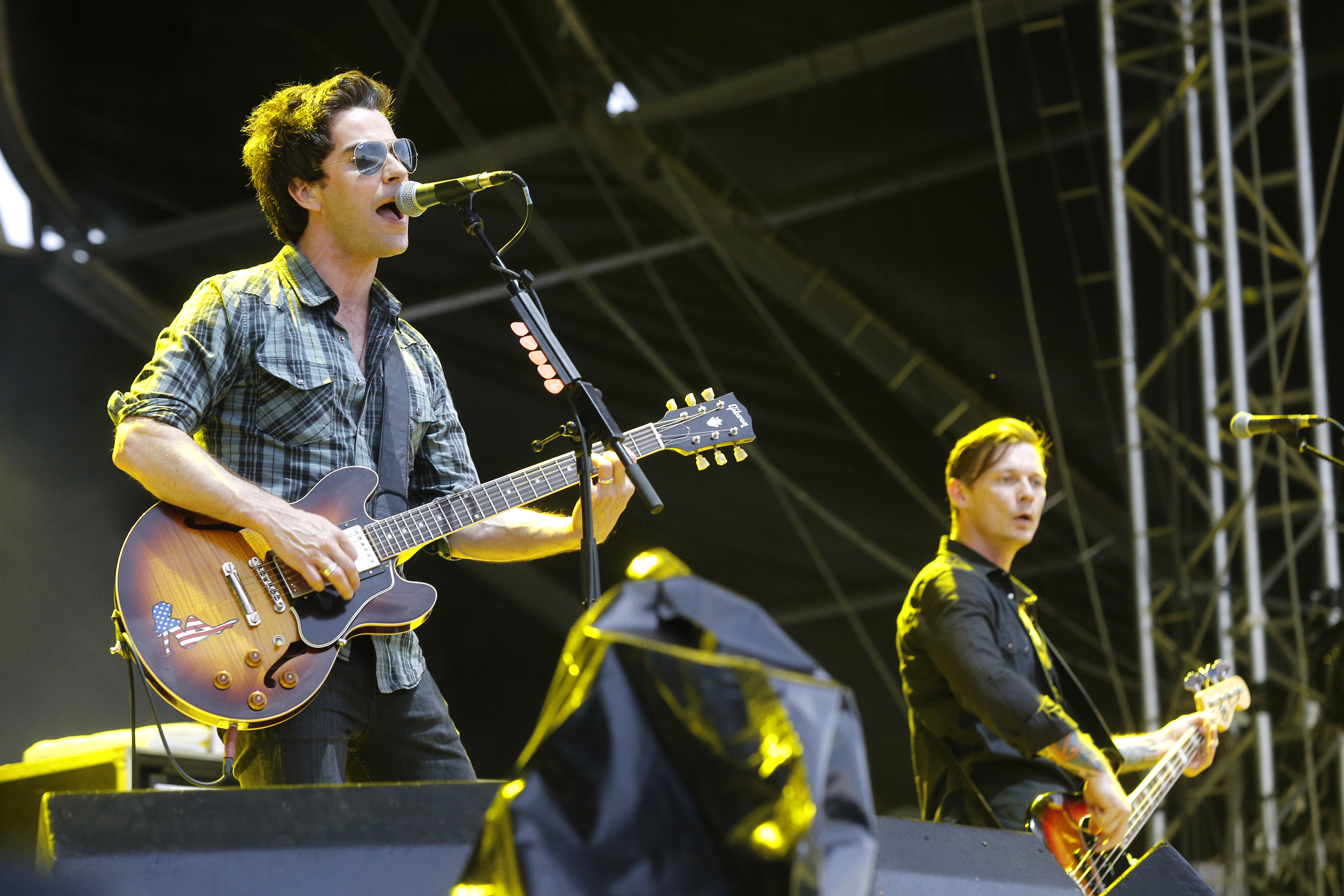 Kelly Jones, singer and guitarist of Welsh band Stereophonics at Nova Rock-Festival 2013.